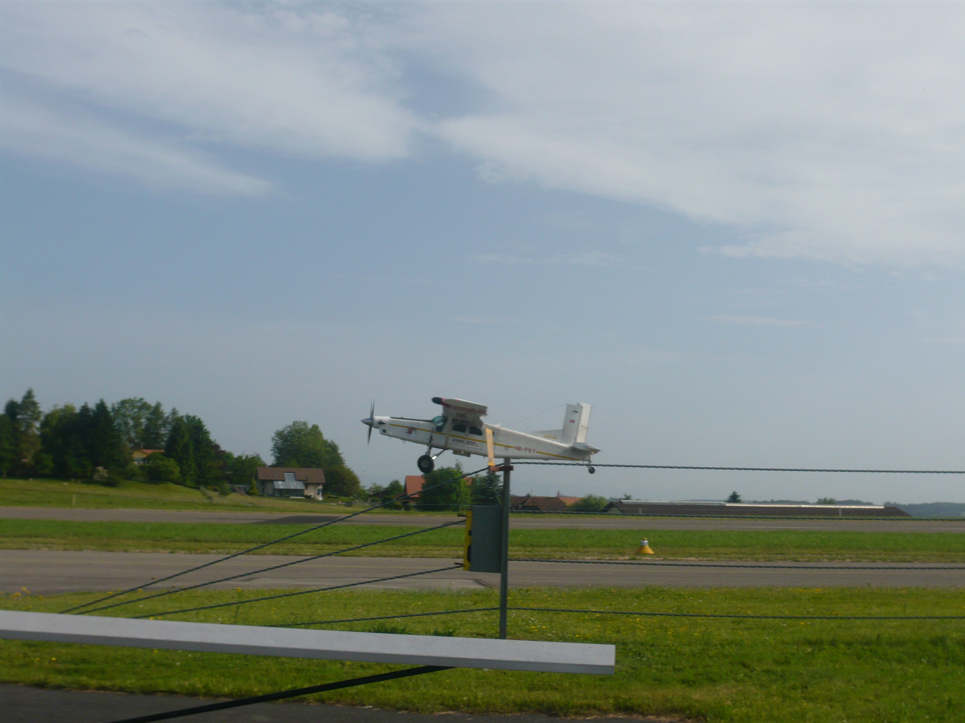 A plane taking off from the Ecuvillens (LSGE) airfield in Switzerland